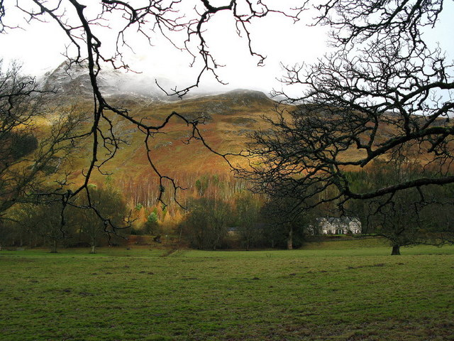 Chesthill, Glen Lyon Chesthill was the home of Robert Campbell of Glenlyon who commanded the Campbells at the infamous Massacre of Glencoe in 1692. Creag Dhearg in the background.